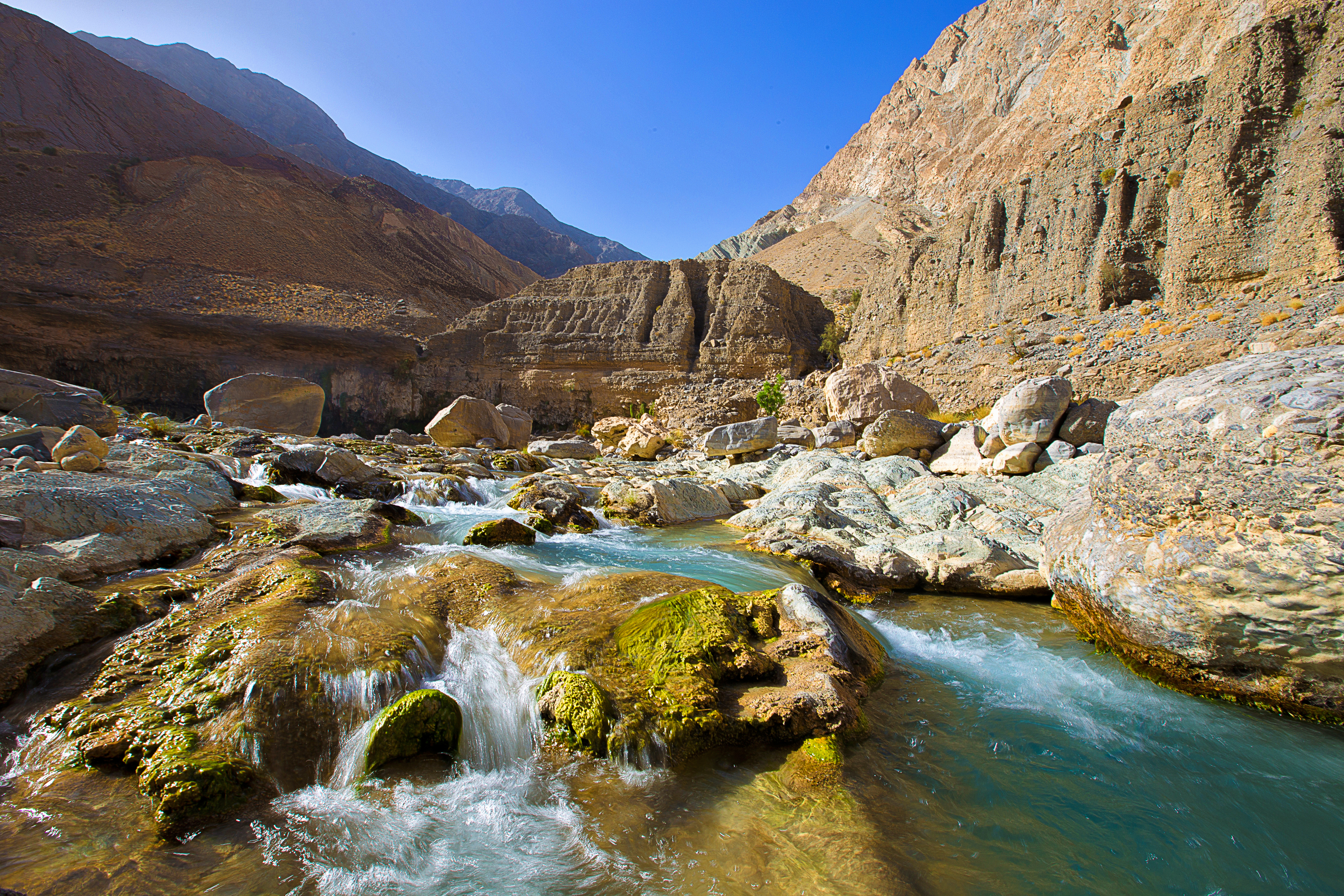 Moola Chotuk Hidden paradise in Balochistan More than 80 km away from Khuzdar there is a beautiful village called Moola, It is a Tehsil of District Khuzdar. It is famous due to historical place as well as its geographical location. In this village many waterfalls are found, Chotok is one of the biggest waterfalls of Sub Tehsil Moola as well as Baluchistan. This waterfall exist between two hills, the peaks of the hills are interacted with each other that is why waterfall just looks like an umbrella. Its water is hot during winter season and cold during summer season, people feel pleasant and find themselves in the imaginative world.